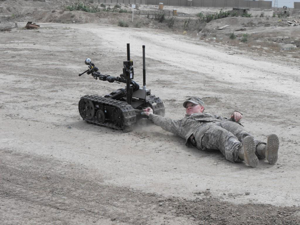 While being dragged, 225th Engineer Brigade Soldier Sgt. Kasandra Deutsch of Pineville, La., demonstrates the power of the Talon robot, April 15, during a training exercise with the 9th Iraqi Army Engineer Regiment. The Talon robot system is used to help clear improvised explosive devices. See more at Army.mil